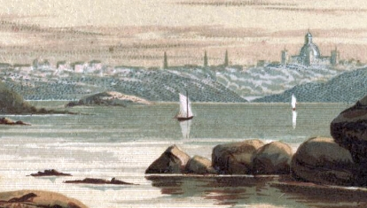 Detail from an 1880s painting showing Sydney Harbour. Chromolithograph ; 8.2 x 13.3 cm.